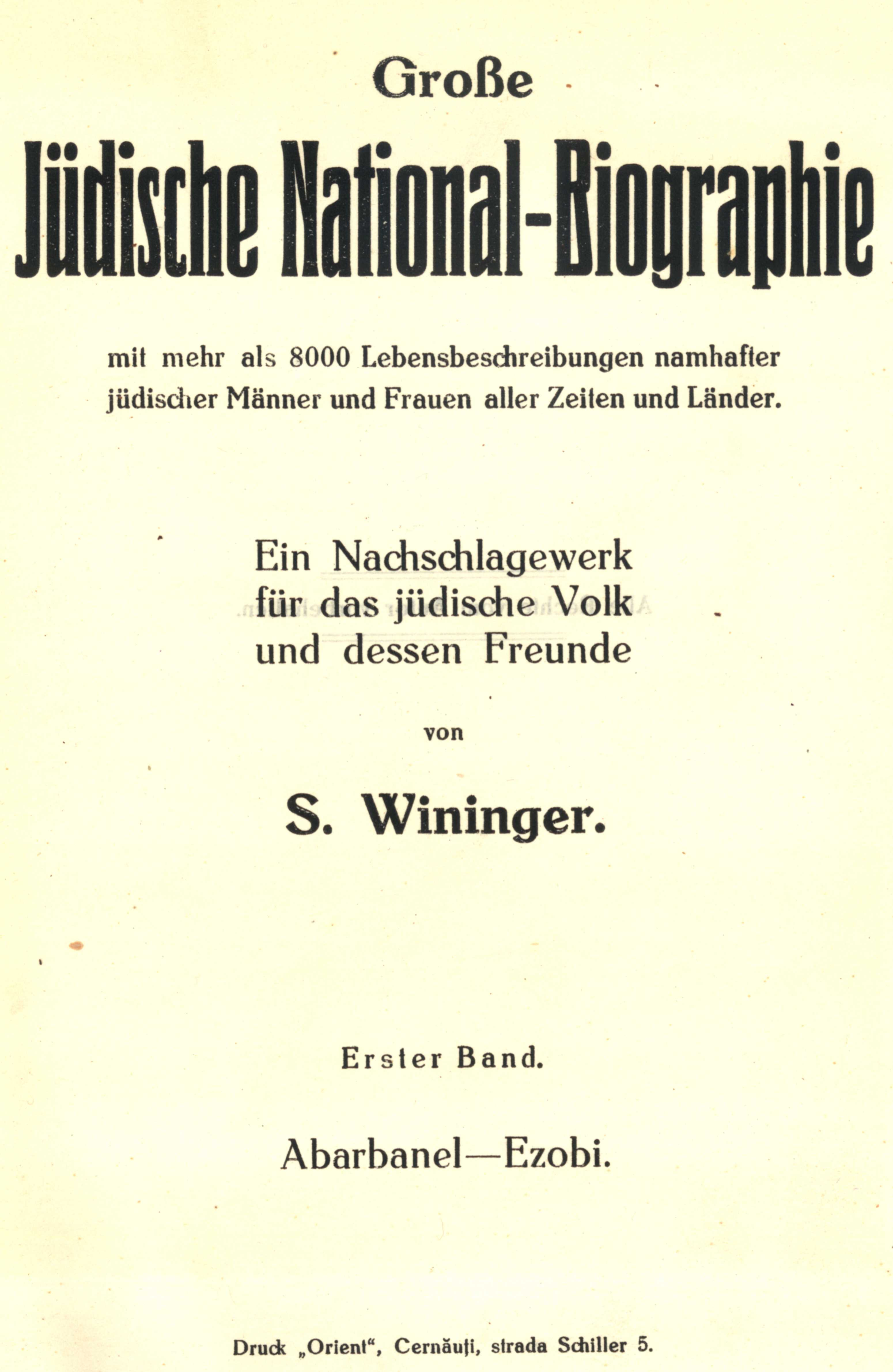 Salomon Wininger: Grosse Juedische National-Biographie, Volume 1 (front page), Chernivtsi 1925